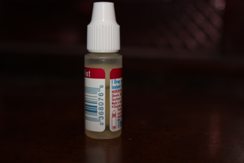 Slightly under 100 drops ("hits") of liquid LSD in a "Ice Drops" breath mint bottle; a common brand and bottle size used when storing liquid LSD.